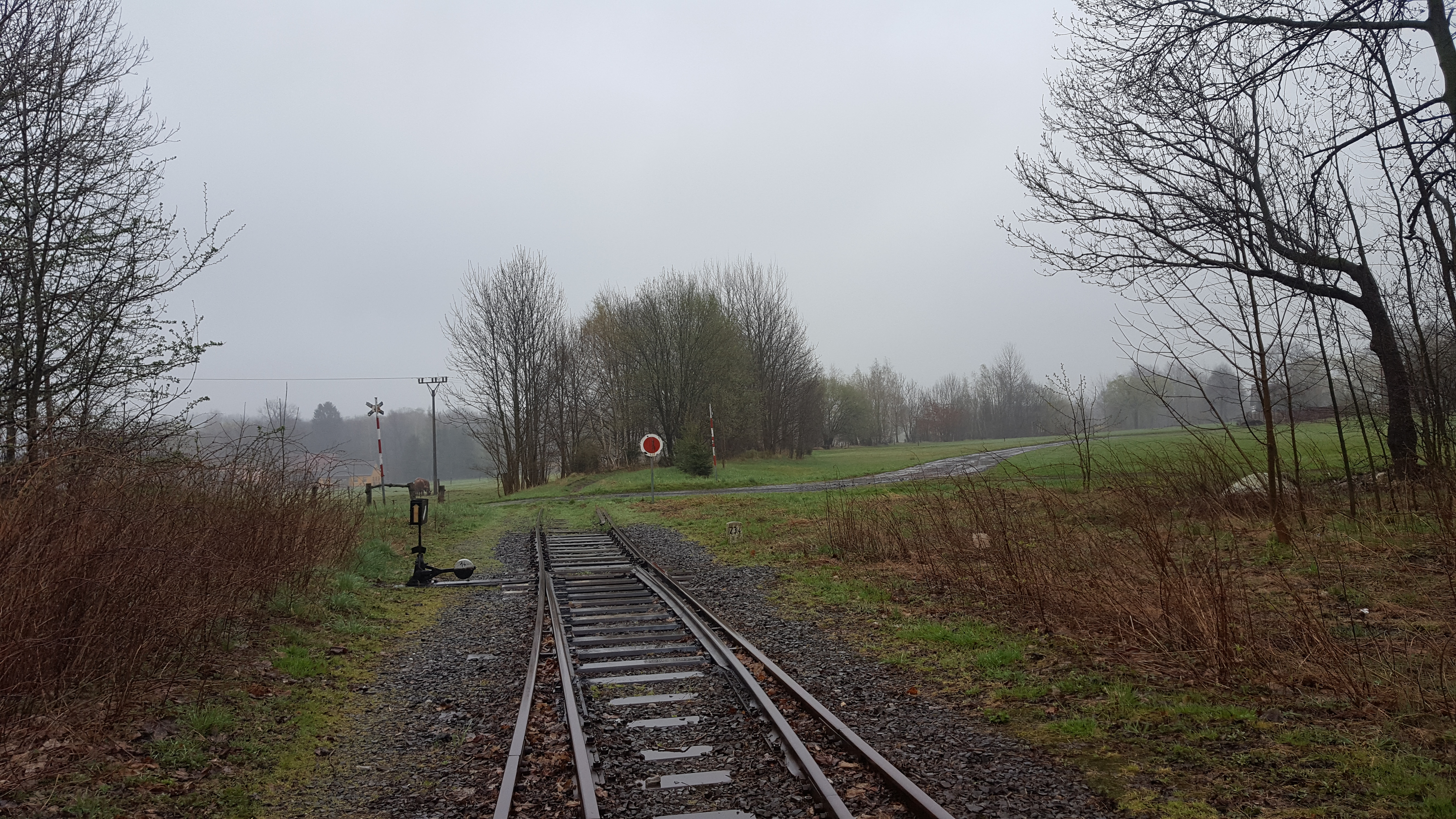 End of track in Jindřichovice pod Smrkem, Czech Republic. Until 1945, trains could continue to present-day Poland.